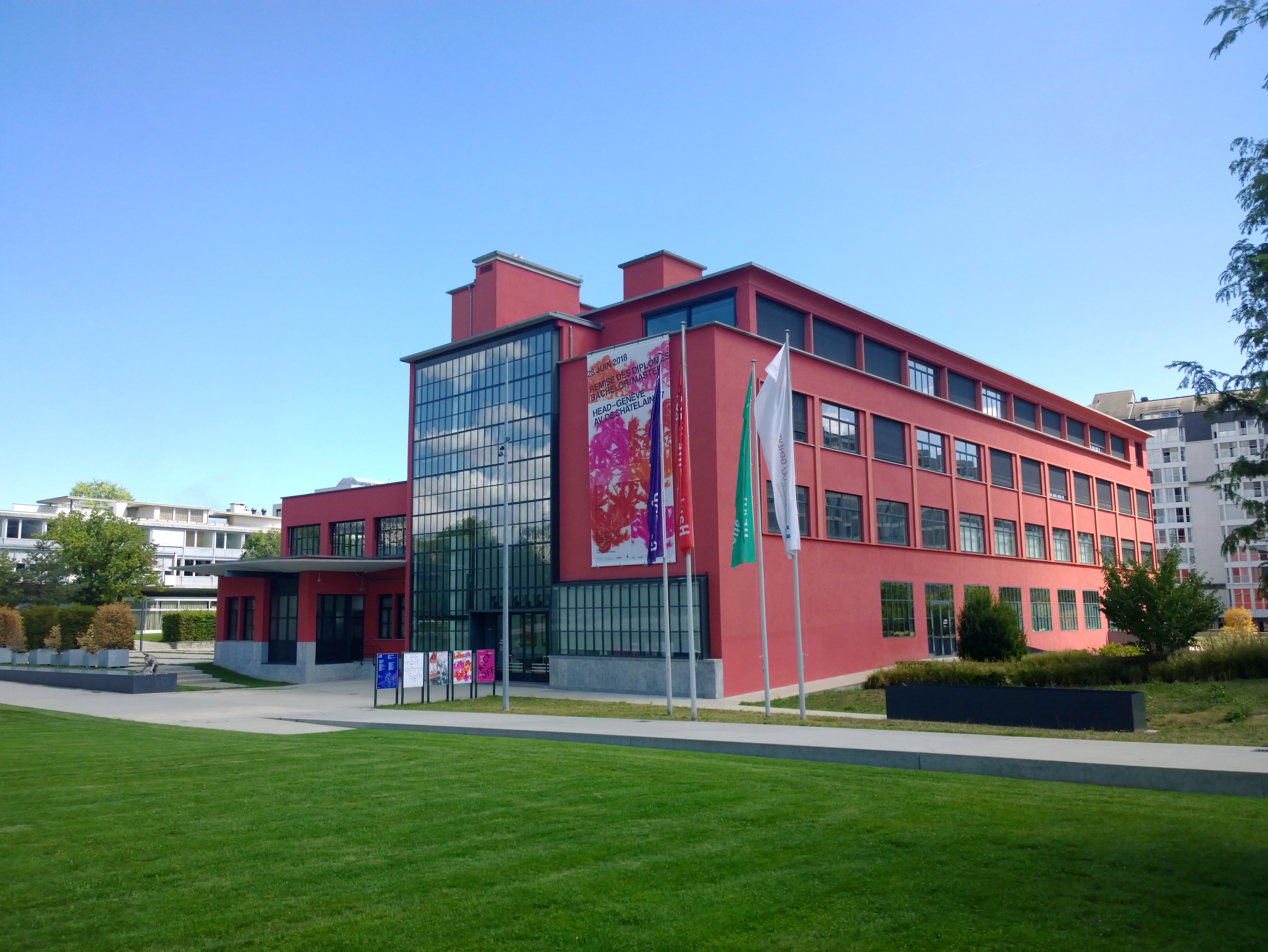 Building of HEAD Geneva, former factory (Tavaro), in August 2018.